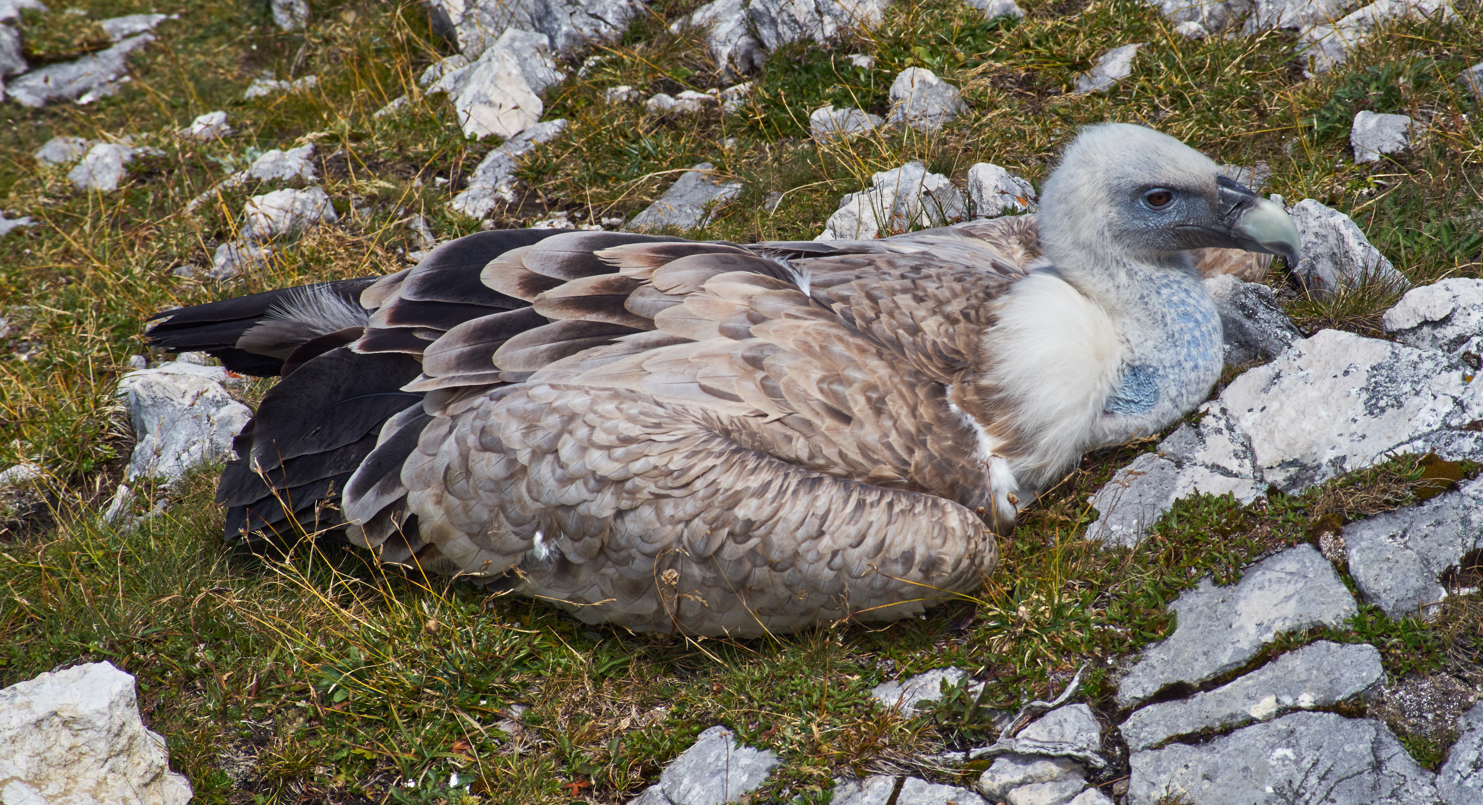 Gyps fulvus on top of Untersberg in Berchtesgaden Alps, Germany.